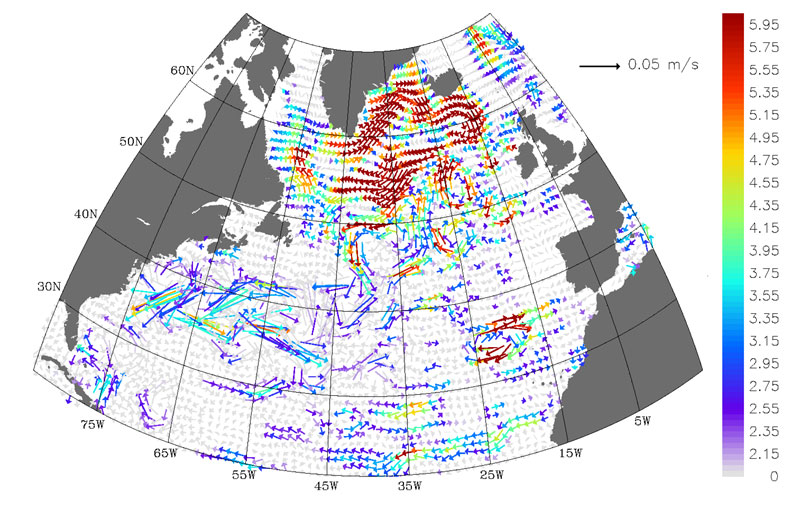 Trend Velocities in North Atlantic The trend of the velocities (meters per second per decade) derived from NASA Pathfinder altimeter data for the period May 1992 to June 2002. The colored vectors are statistically significant. Note how the vectors trace the following graphic of the subpolar circulation in reverse direction, which denotes a slowing gyre. Credit: Sirpa Hakkinen, NASA GSFC Parent page: This is from a U.S. Government website, and is not under copyright.